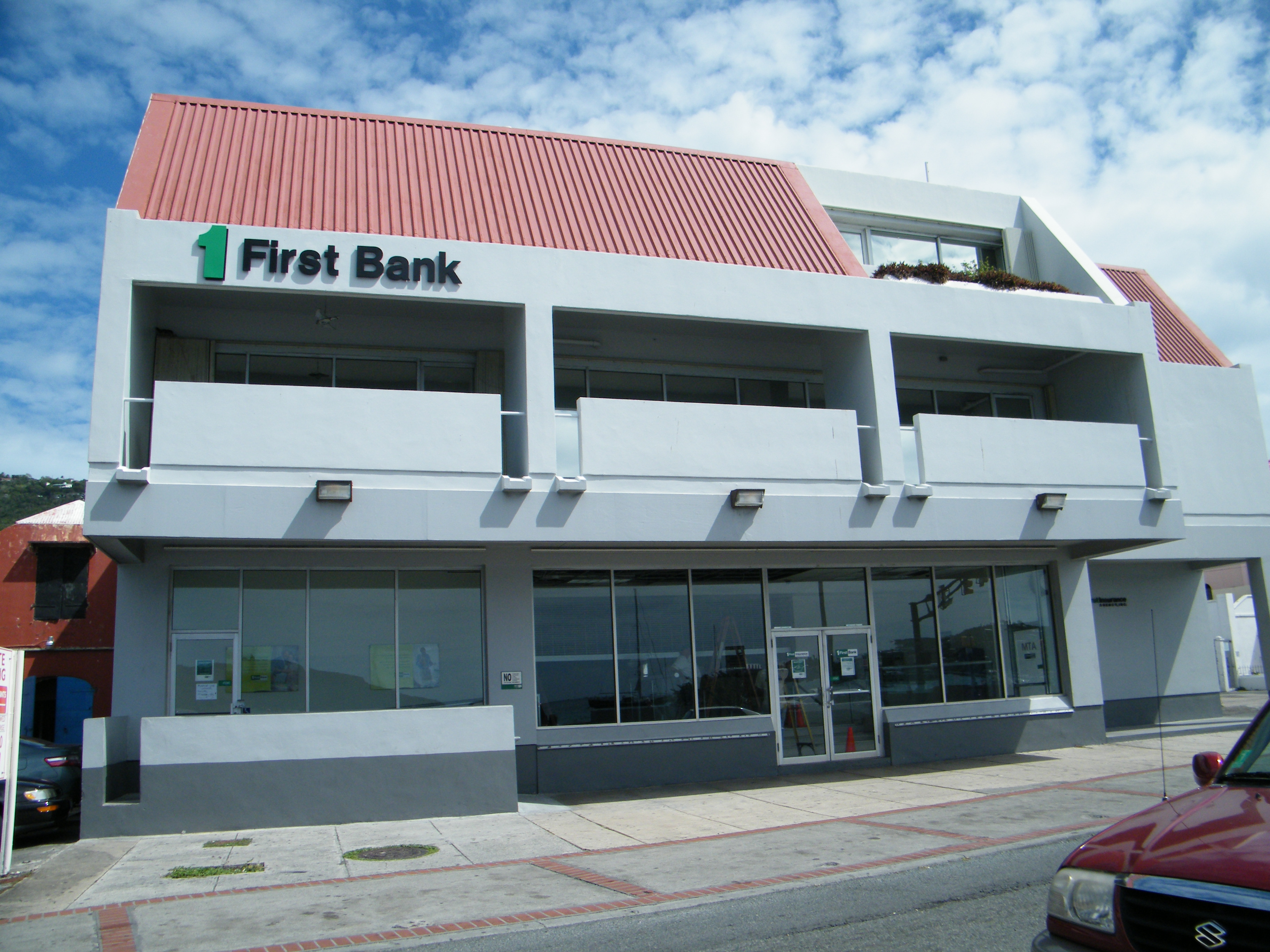 A First Bank branch office (operated by First BanCorp) in Charlotte Amalie.